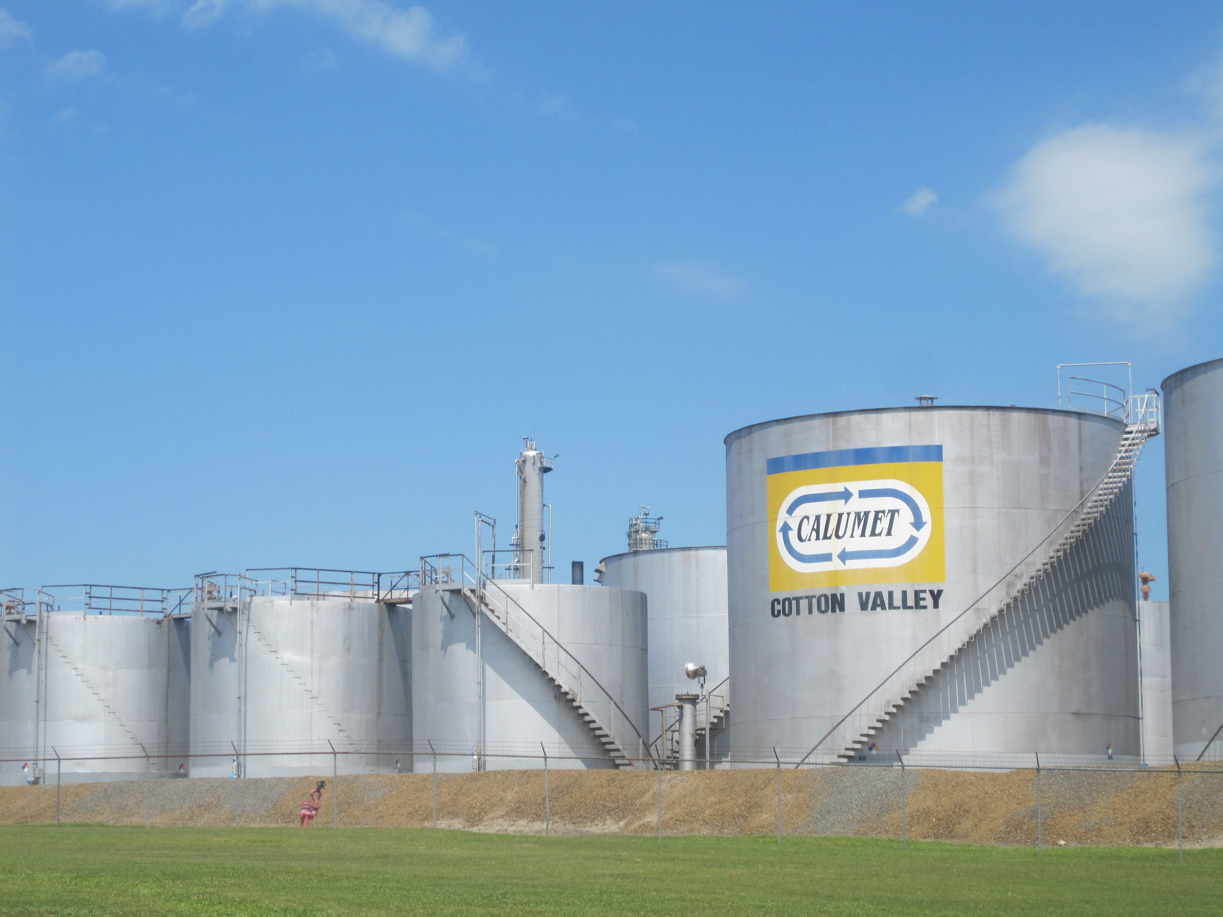 I took photo with Canon camera.